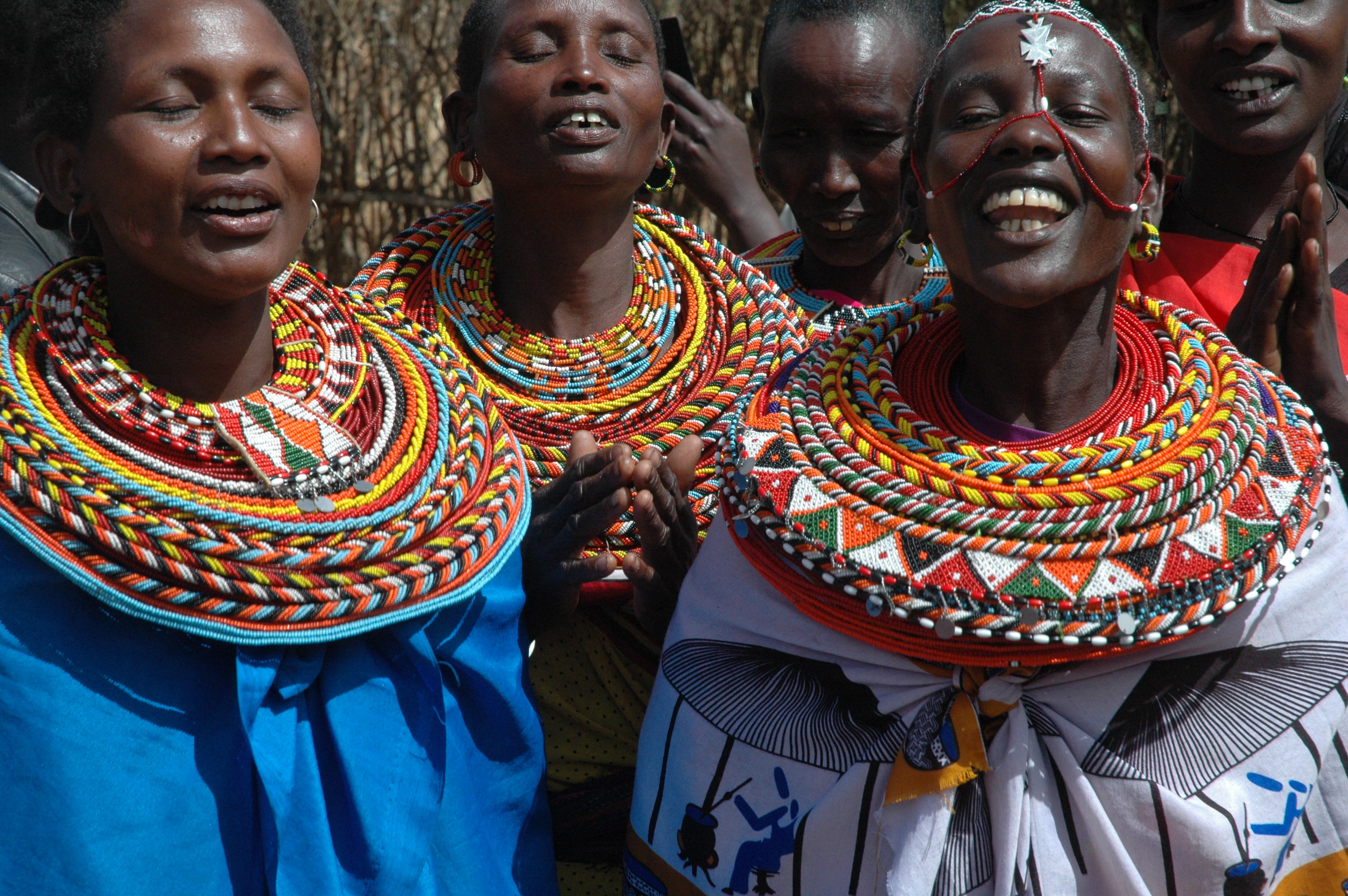 These are Samburu women, Kenya, dancing and singing with beadwork This is an image of "African people at work" from Kenya